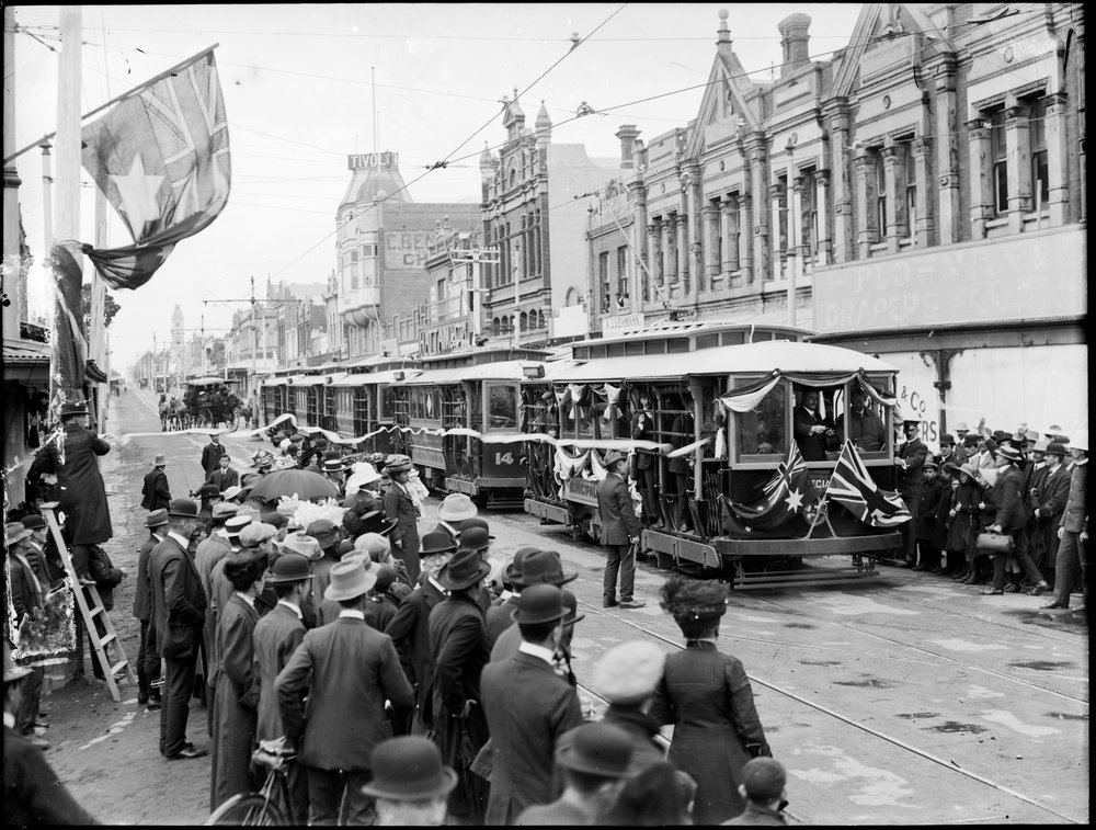 Crowd at Wattletree Rd Corner on the occasion of the Dandenong Rd line opening 16 December 1911, Prharan and Malvern Tramways Trust, Melbourne, Victoria, Australia.